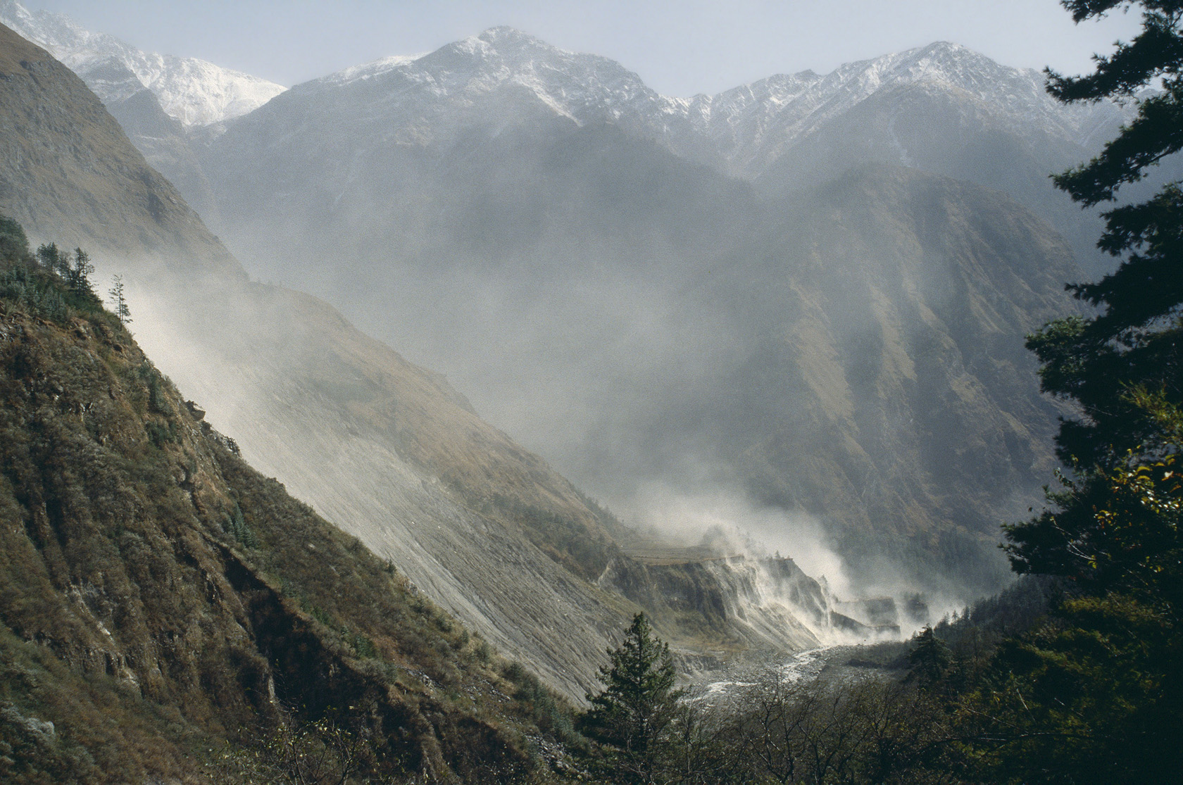 Material being blown out by strong wind, Kalopani, Nepal